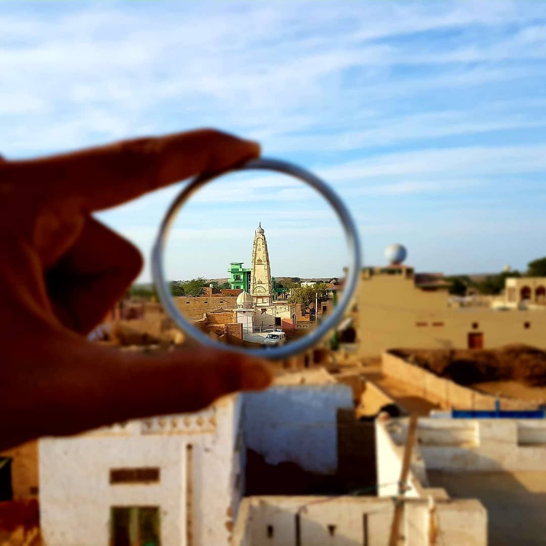 Raghunathpura village in Sriganganagar Rajsthan